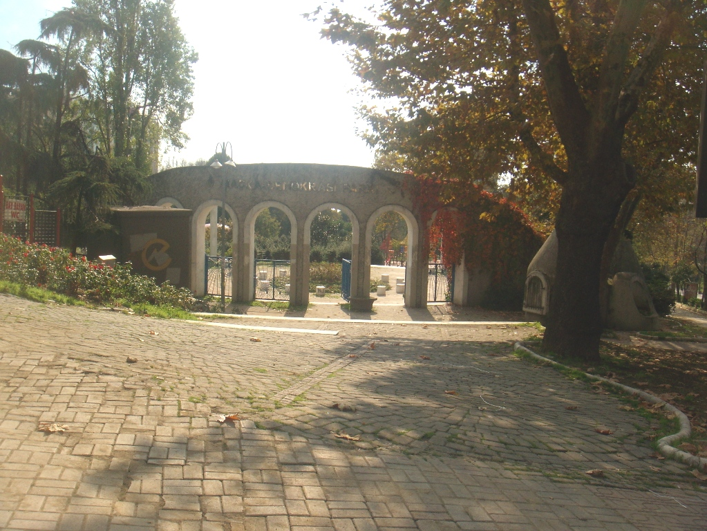 Maçka Park in Istanbul, Turkey.